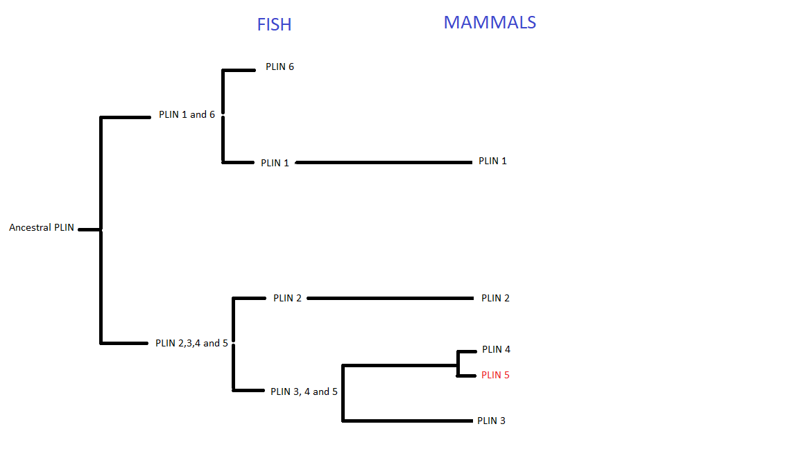 Evolution of perilipin family and its presence in other species.